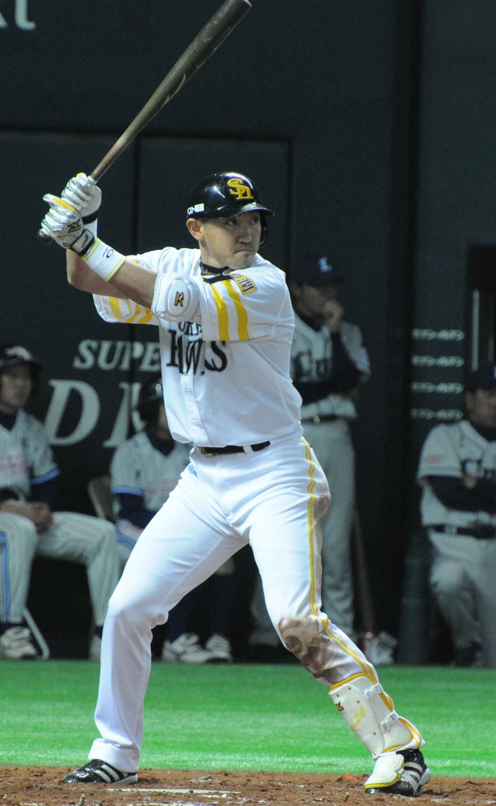 Seiichi Uchikawa, outfielder of the Fukuoka SoftBank Hawks, at Fukuoka Dome.